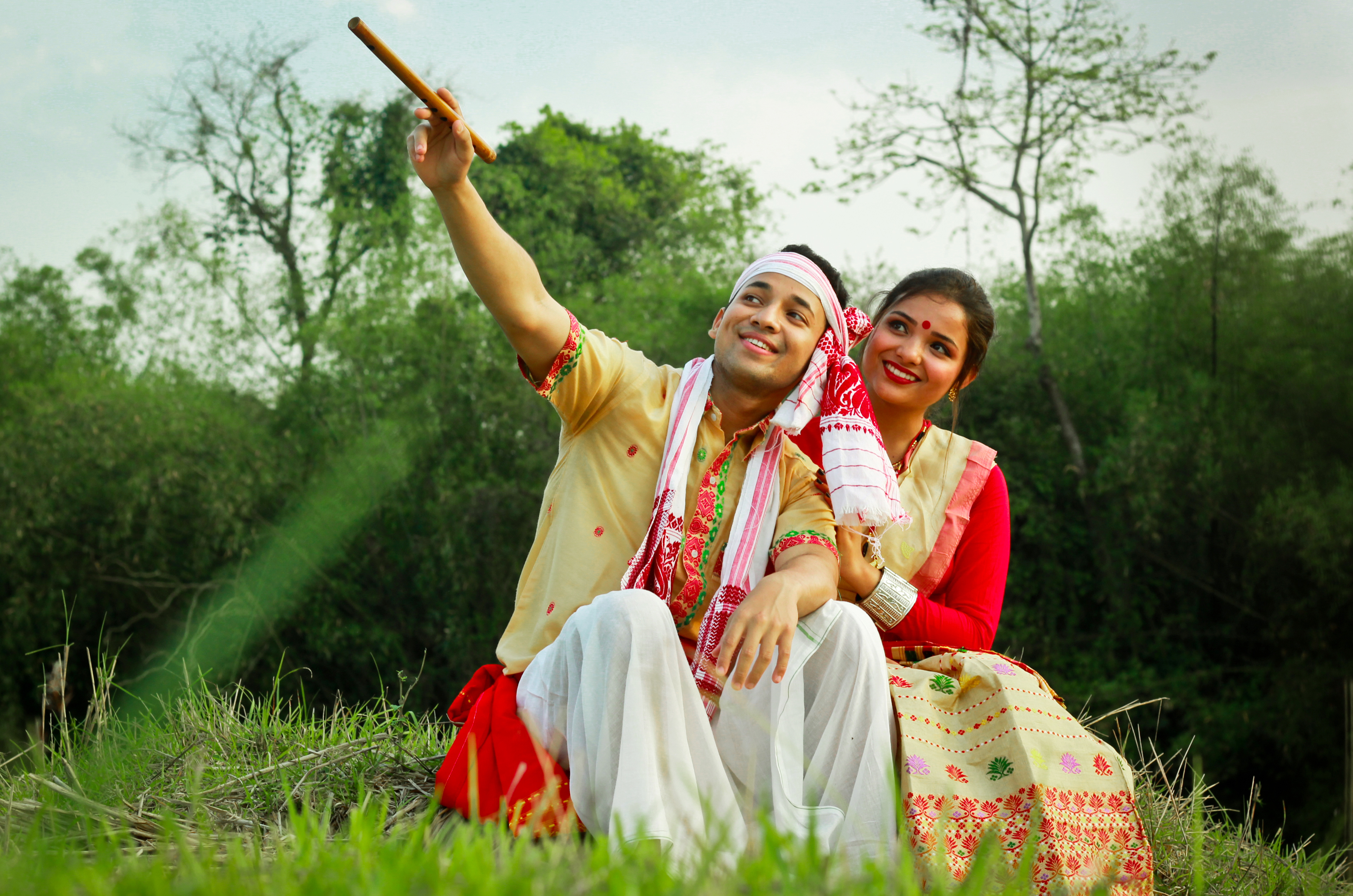 Young Assamese couple in traditional attire during the celebration of Rongali Bihu Festival in Assam